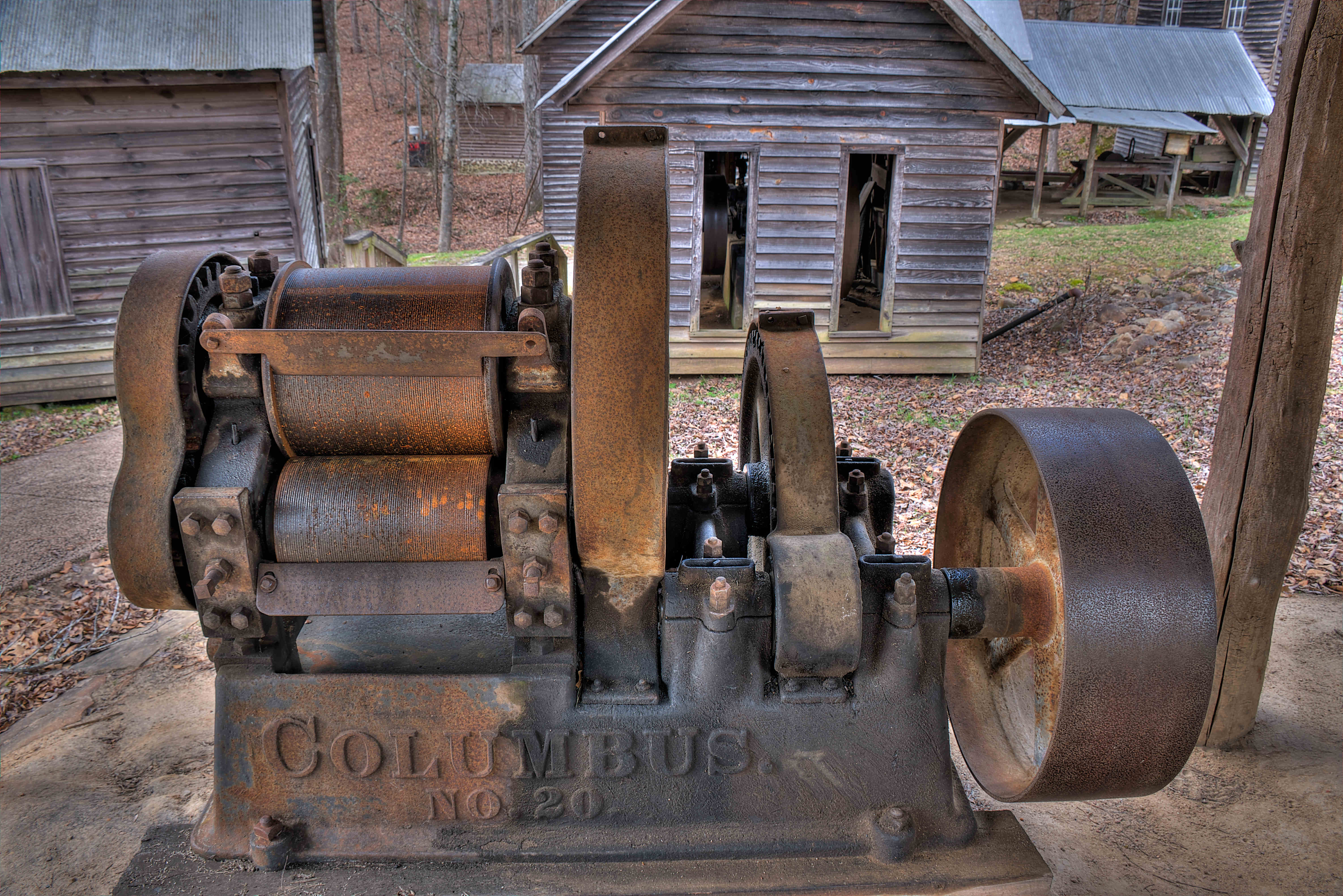 The cane mill was used to remove juice from sugar cane for syrup by crushing the stalks.